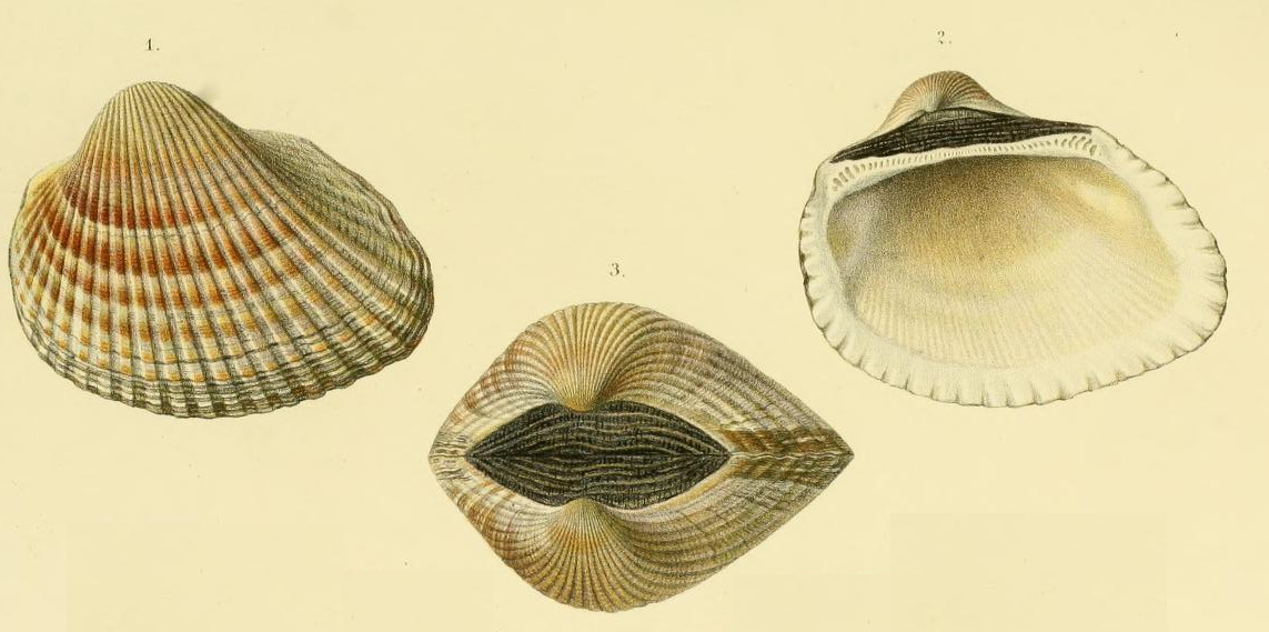 Anadara kagoshimensis (Tokunaga, 1906), Arcidae, Bivalvia, Mollusca, original figures of Arca subcrenata Lischke, 1869, a homonym of Arca subcrenata Michelotti, 1861 and synonym of Anadara kagoshimensis (Tokunaga, 1906)